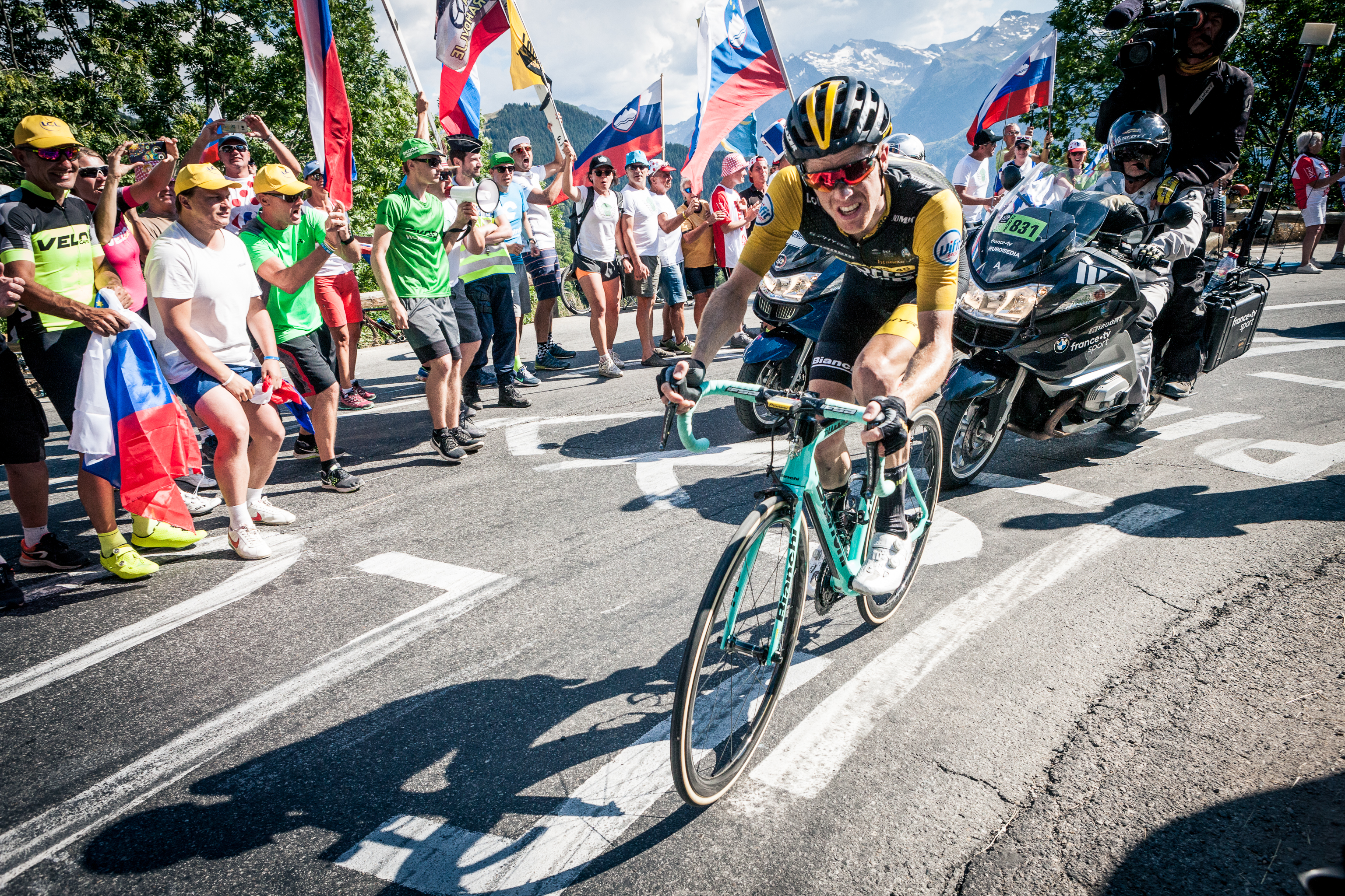 Steven Kruijswijk in the lead on stage 12 on the climb to Alpe d'Huez